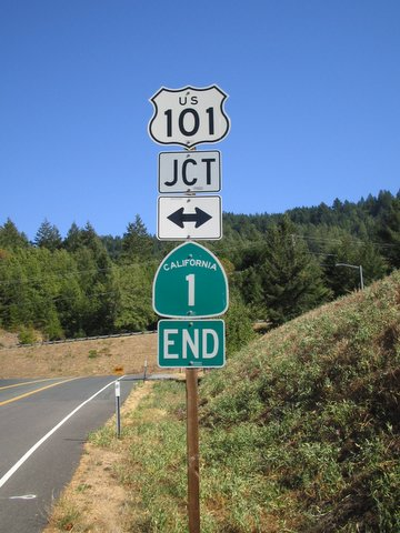 The north end of California State Route 1 in Leggett, California.